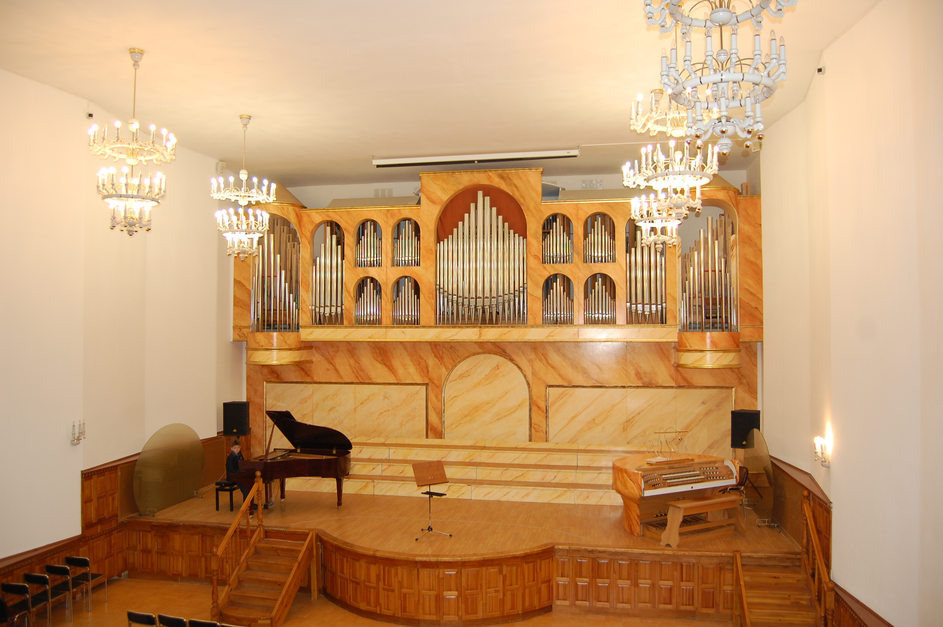 Organ Hall at Dubna, Moscow oblast. In the building of the Dubna Choral School of Boys and Young Men.